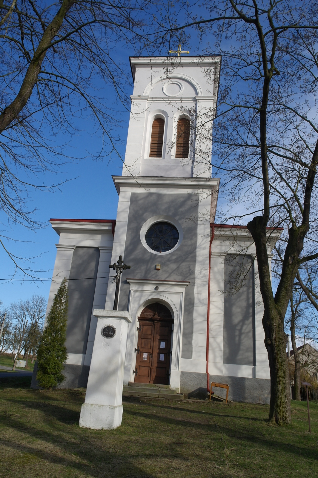 Church of the Nativity of the Virgin Mary, Záboří (Kly), Mělník District, Main entrance through the bell tower. NW view.